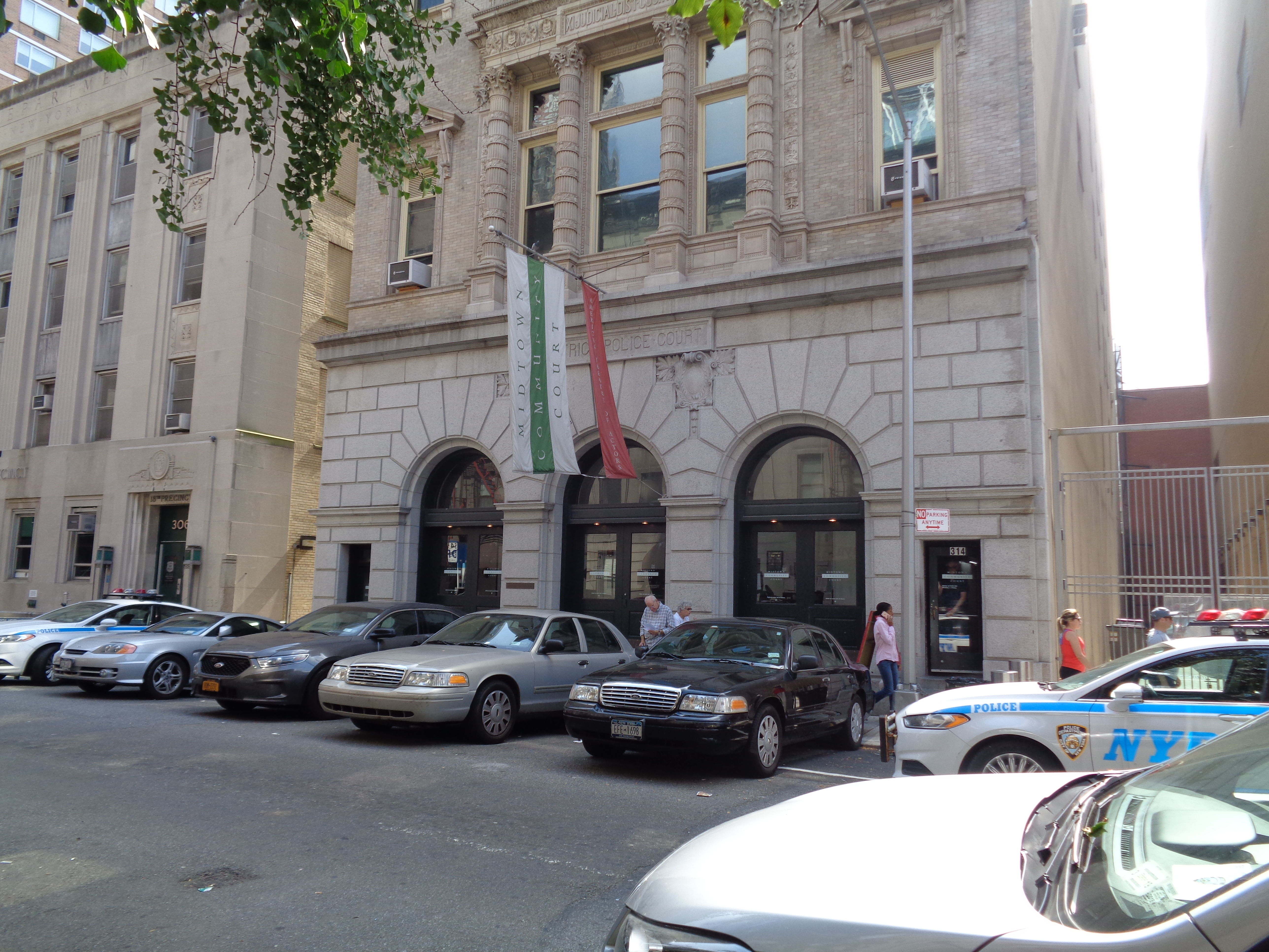 The Midtown Community Court building on 54th Street between 9th Avenue and 8th Avenue, adjacent to the New York City Transit Rail Control Center, in Hell's Kitchen, Manhattan